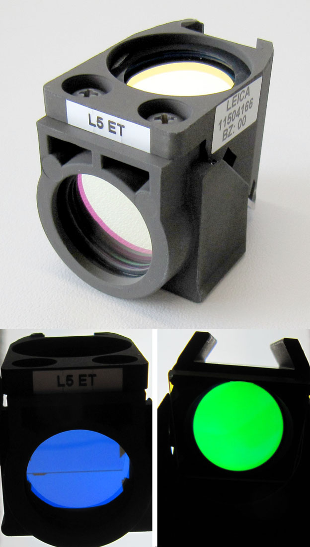 Fluorescence filter cube for green fluorochromes. Filter system L5 ET: BP 480/40; LP 505, BP 527/30. Bottom left: view against a cloudy sky through the excitation filter. bottom left: same trough emission filter.